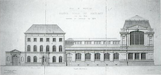 Opstand van de Academie (Jamaer, 1876)